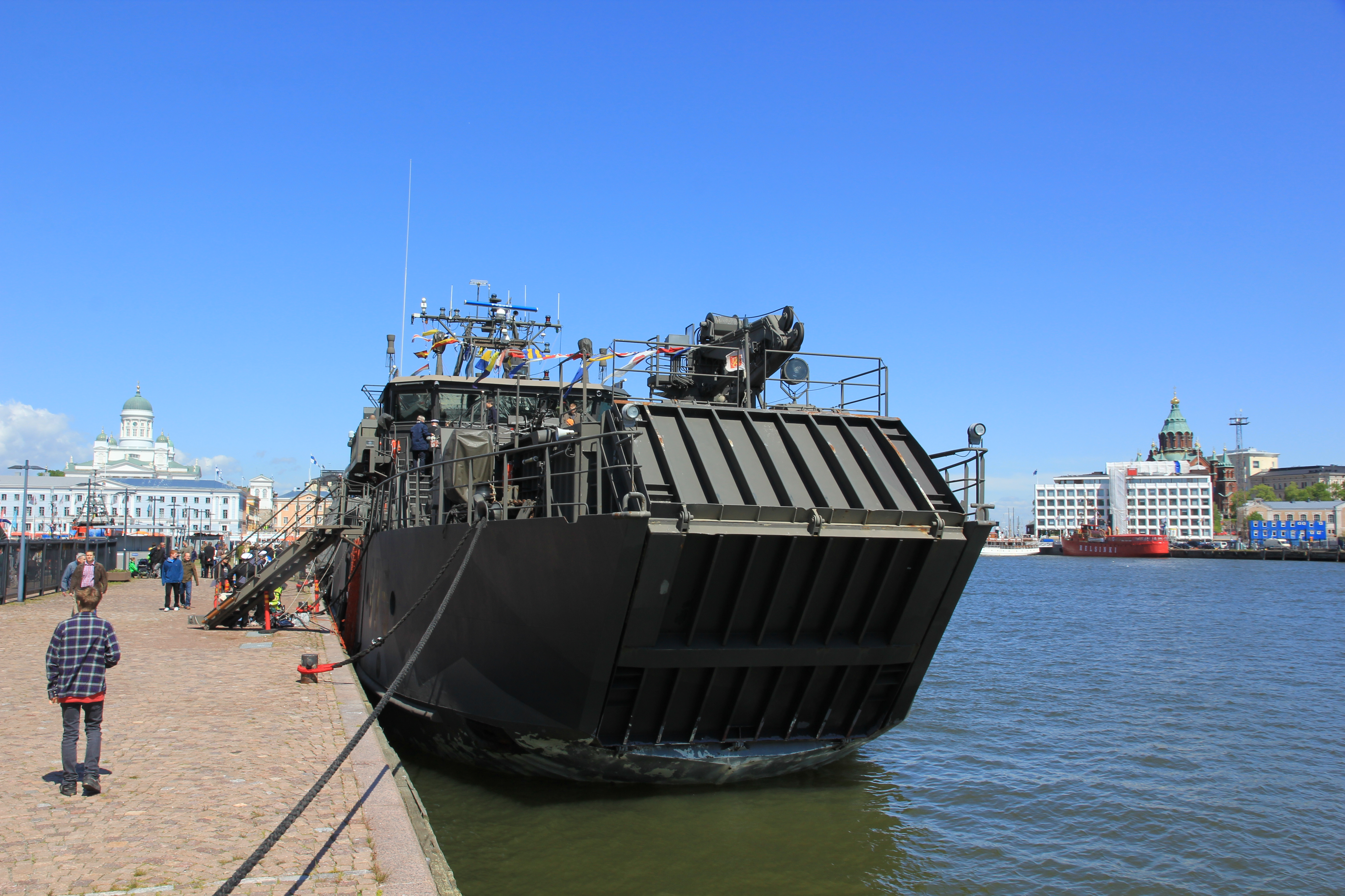 Finnish navy minelayer Pyhäranta in Helsinki South harbour as part of the Finnish Defence Force Flag day celebrations.